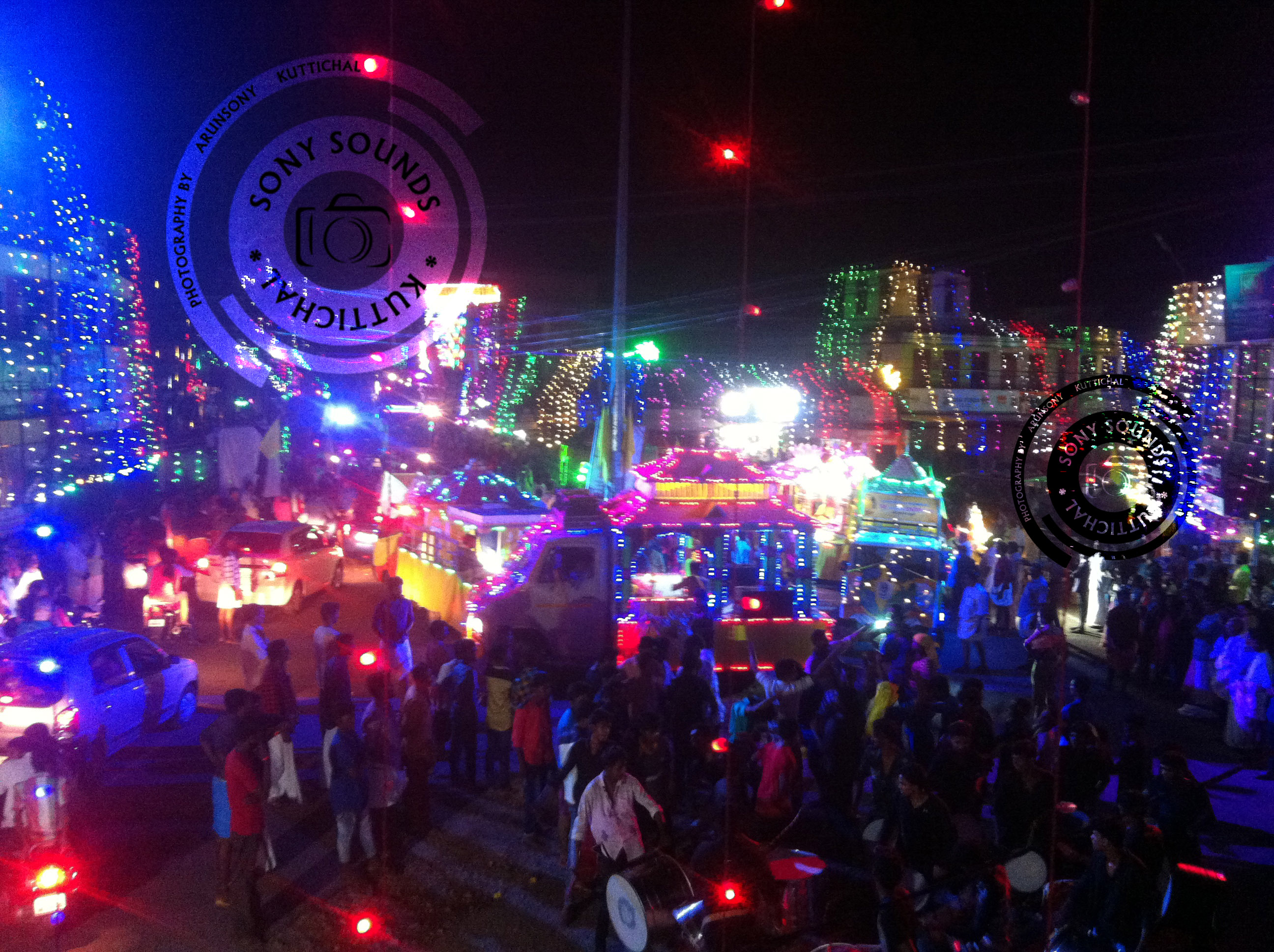 onam celebration at kuttichal town junction